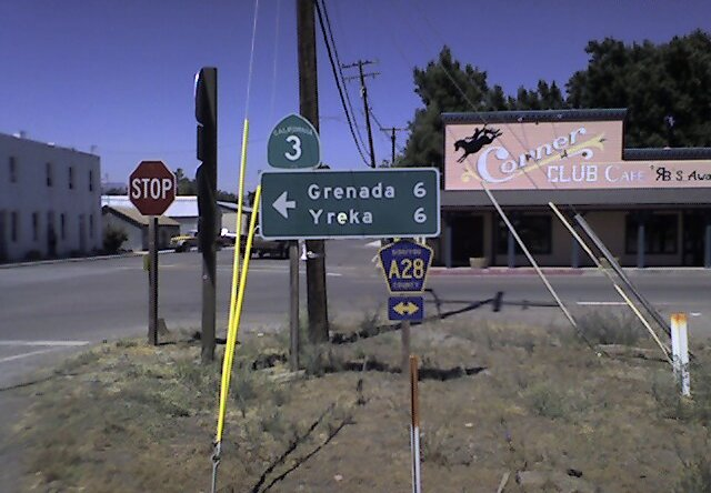 Junction of CA3 and A28 in Montague facing West.